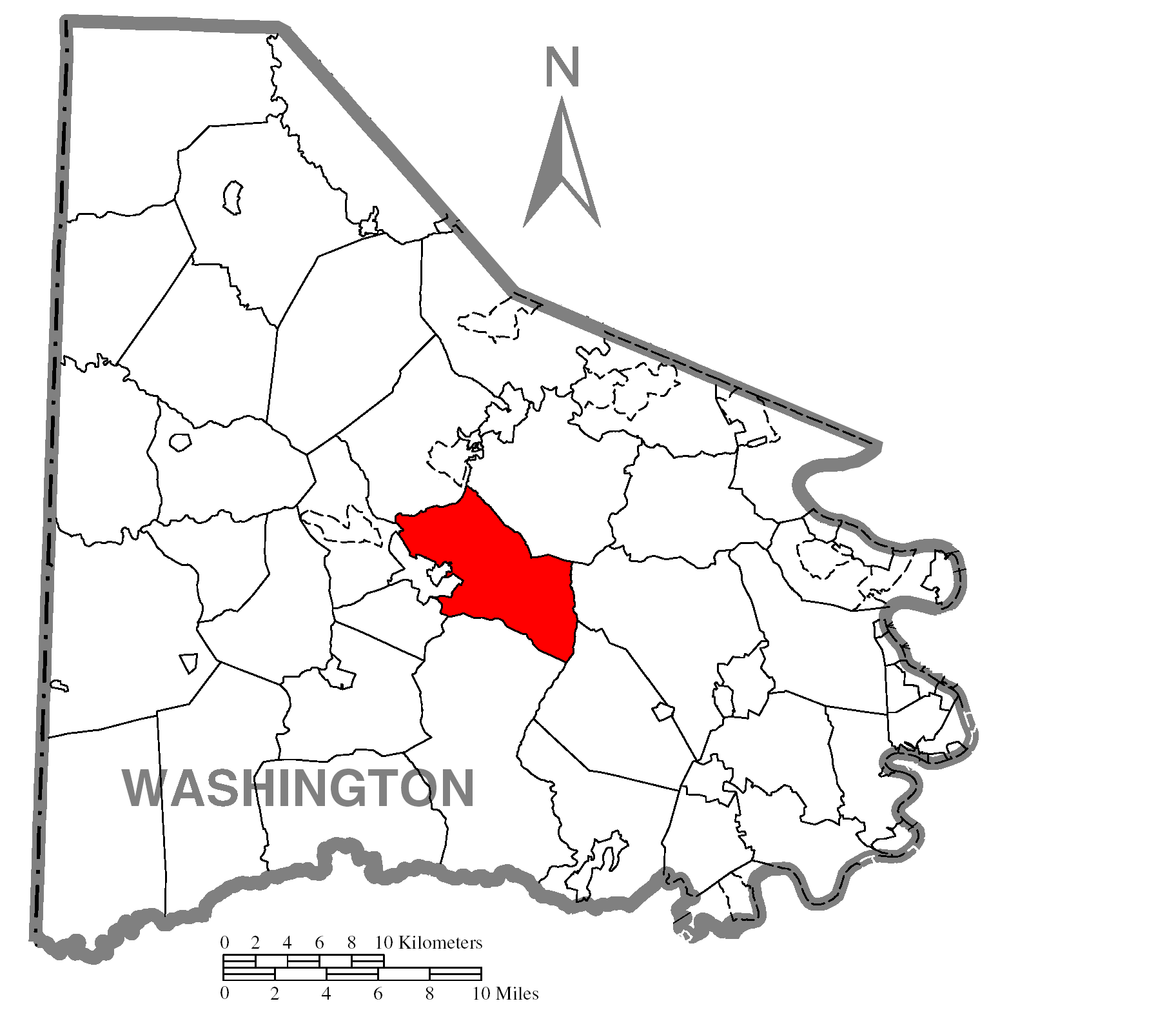 Map of Washington County higlighting South Strabane Township.